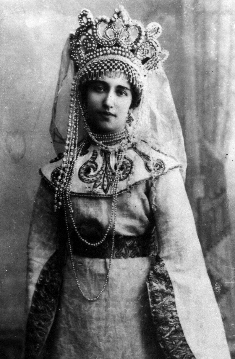 Avreliya Iosifovna Dobrovol'skaya